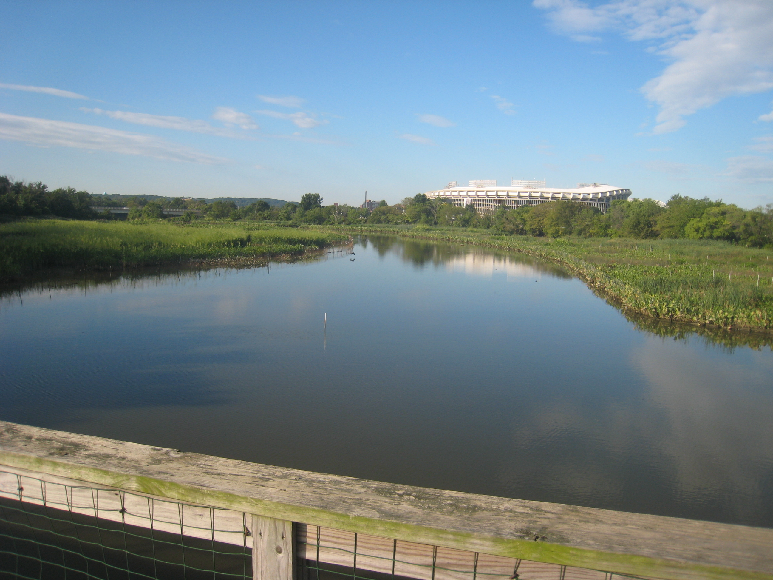 A south-facing view of the marshy eastern part of Kingman Lake taken from the bridge to Kingman Island from the mainland NE Washington DC. Kingman Lake is on the left of the picture. Visible in the Distance are the East Capitol St. Bridge and RFK Stadium.